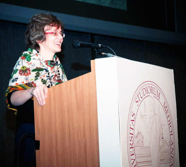 La Prof Elena Cattaneo speaking at a podium in 2013